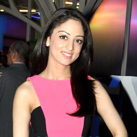 Sandeepa Dhar graces the Grey Goose fashion event